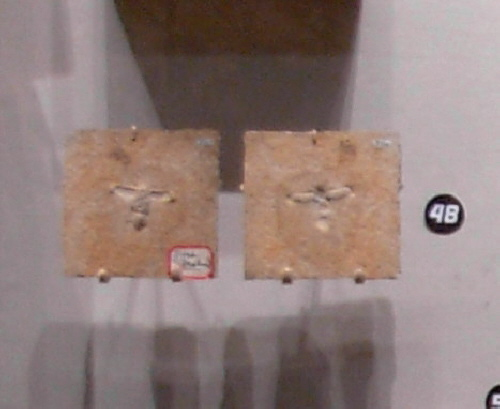 Fossil specimen of Ditomoptera dubia from the Solnhofen Limestones of Germany. Carnegie Museum of Natural History #?.